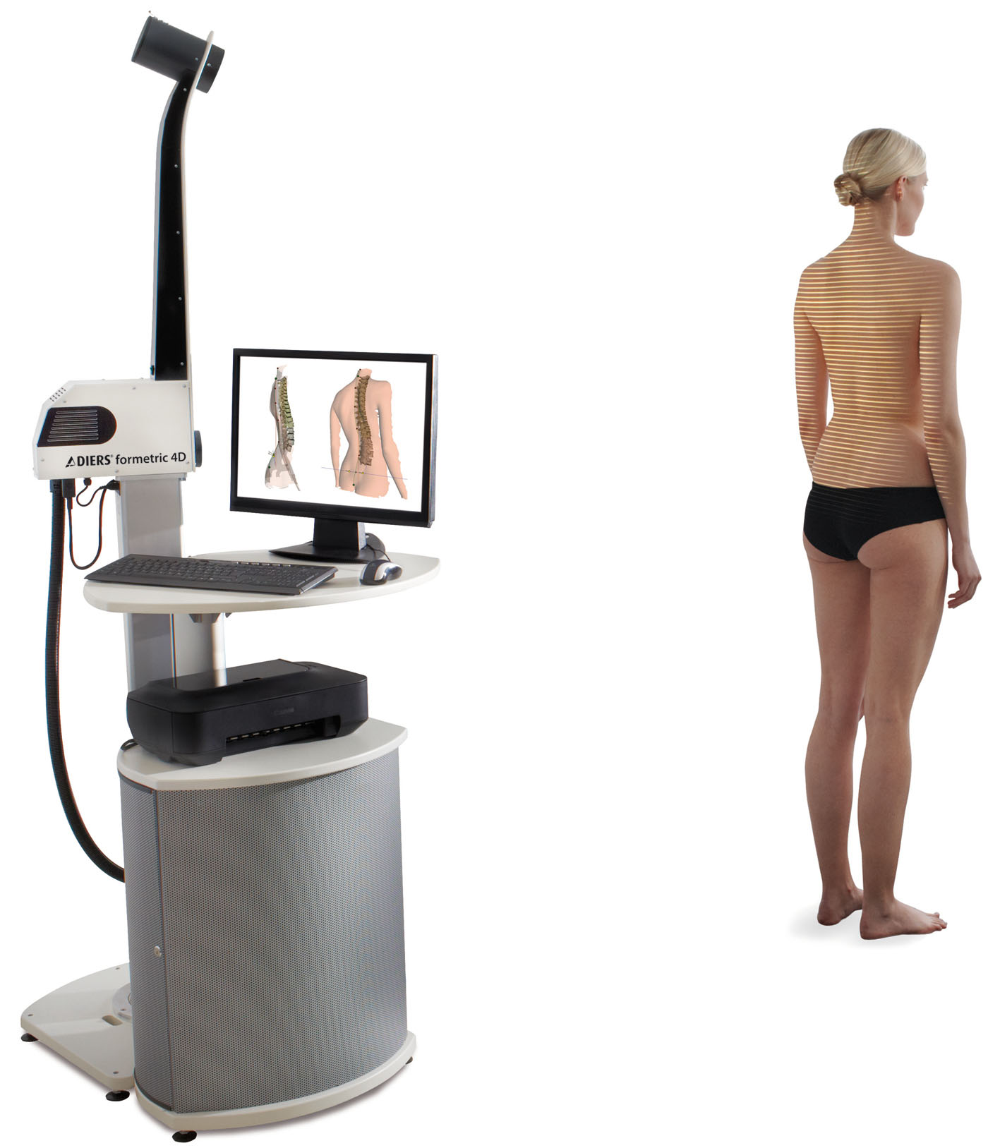 woman using a DIERS formetric 4D